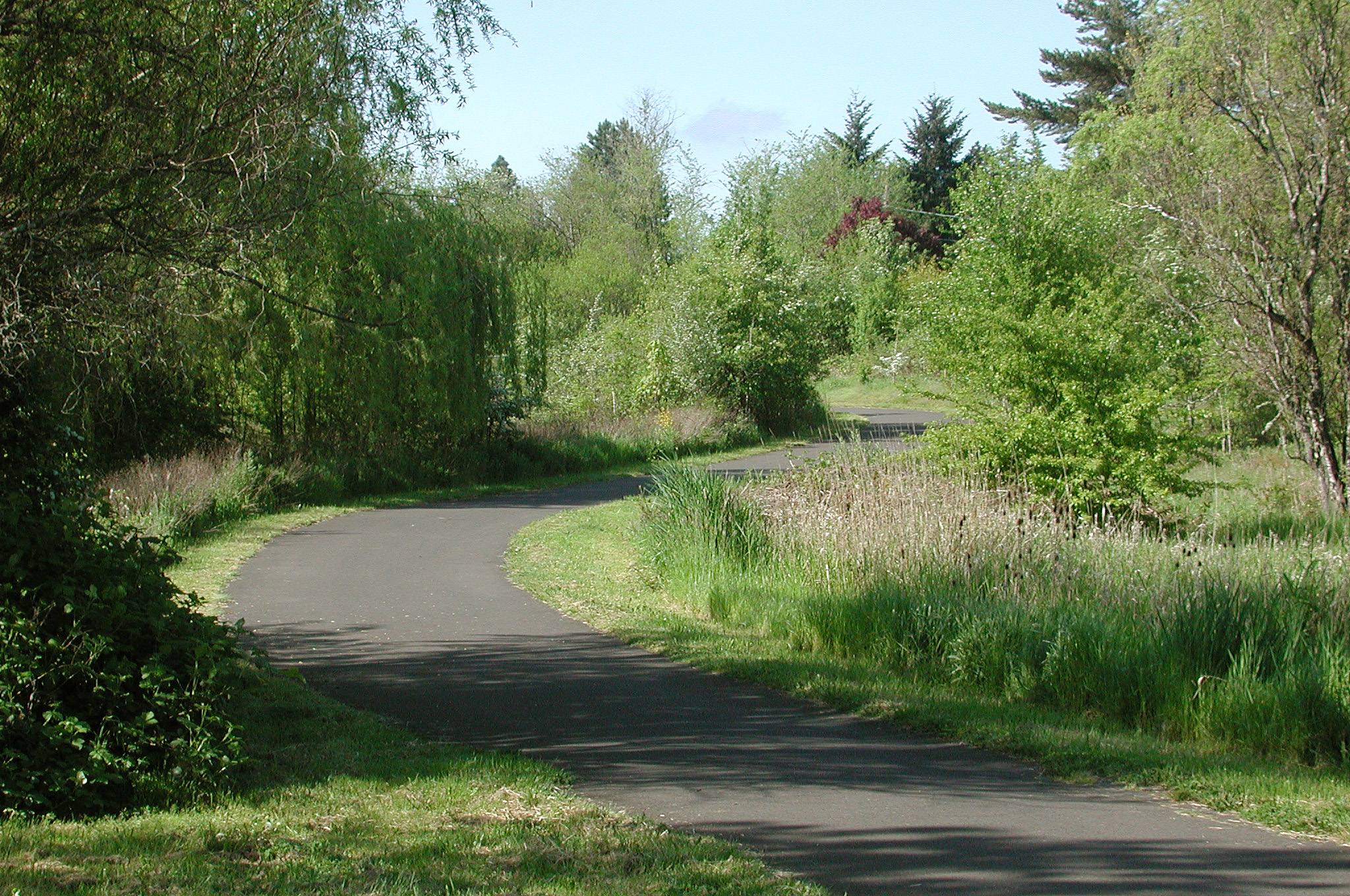 A completed section of the Fanno Creek Greenway Trail runs through Fanno Creek Park in Beaverton, Oregon. The path is part of a planned 15-mile (24 km) trail linking Willamette Park on the Willamette River in southwest Portland to the confluence of Fanno Creek with the Tualatin River.